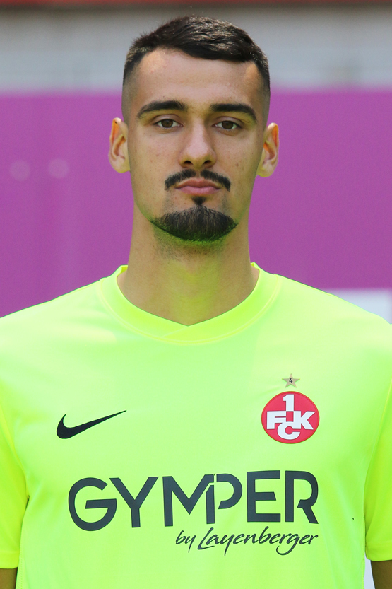 Avdo Spahic (Nr. 30)